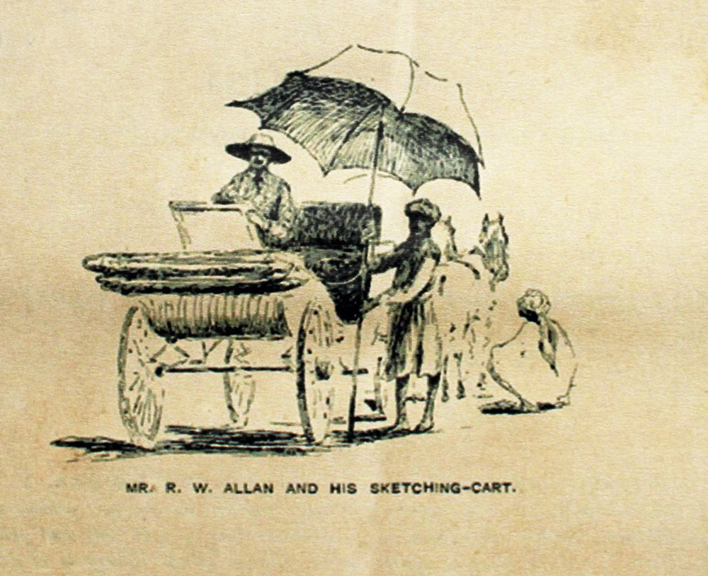 This drawing was reproduced in the book Young India in 1891